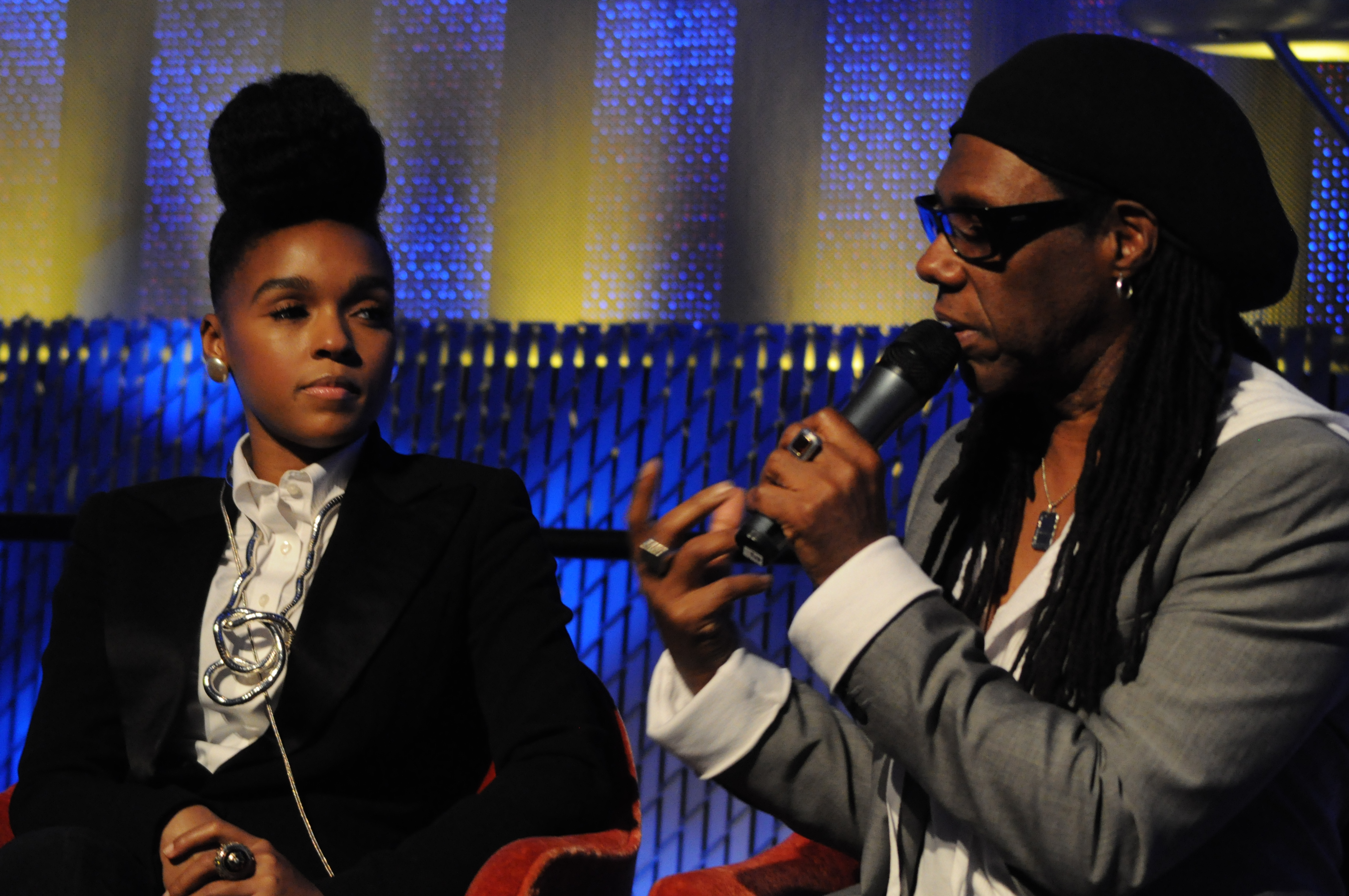 Janelle Monáe and Nile Rodgers on keynote panel of the 2010 Pop Conference, EMPSFM, Seattle, Washington.